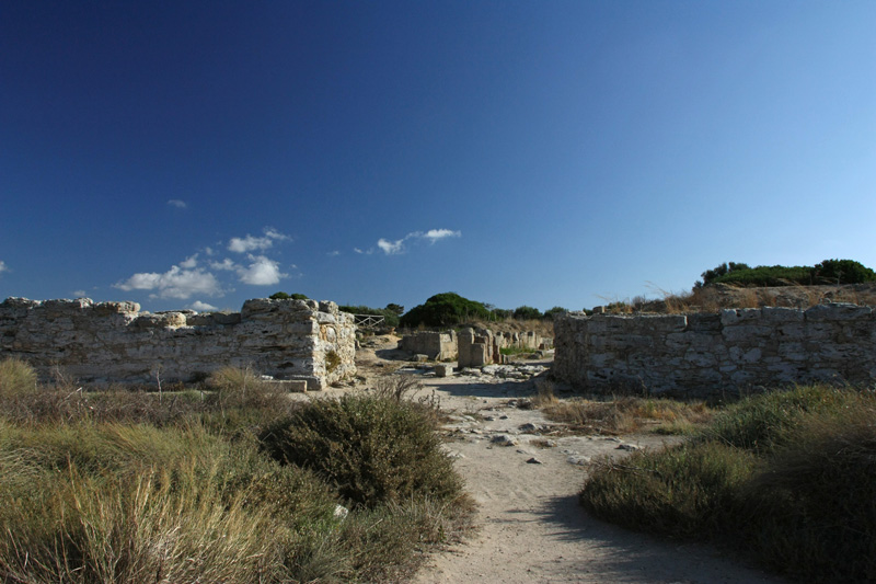 Mothia, Gate north